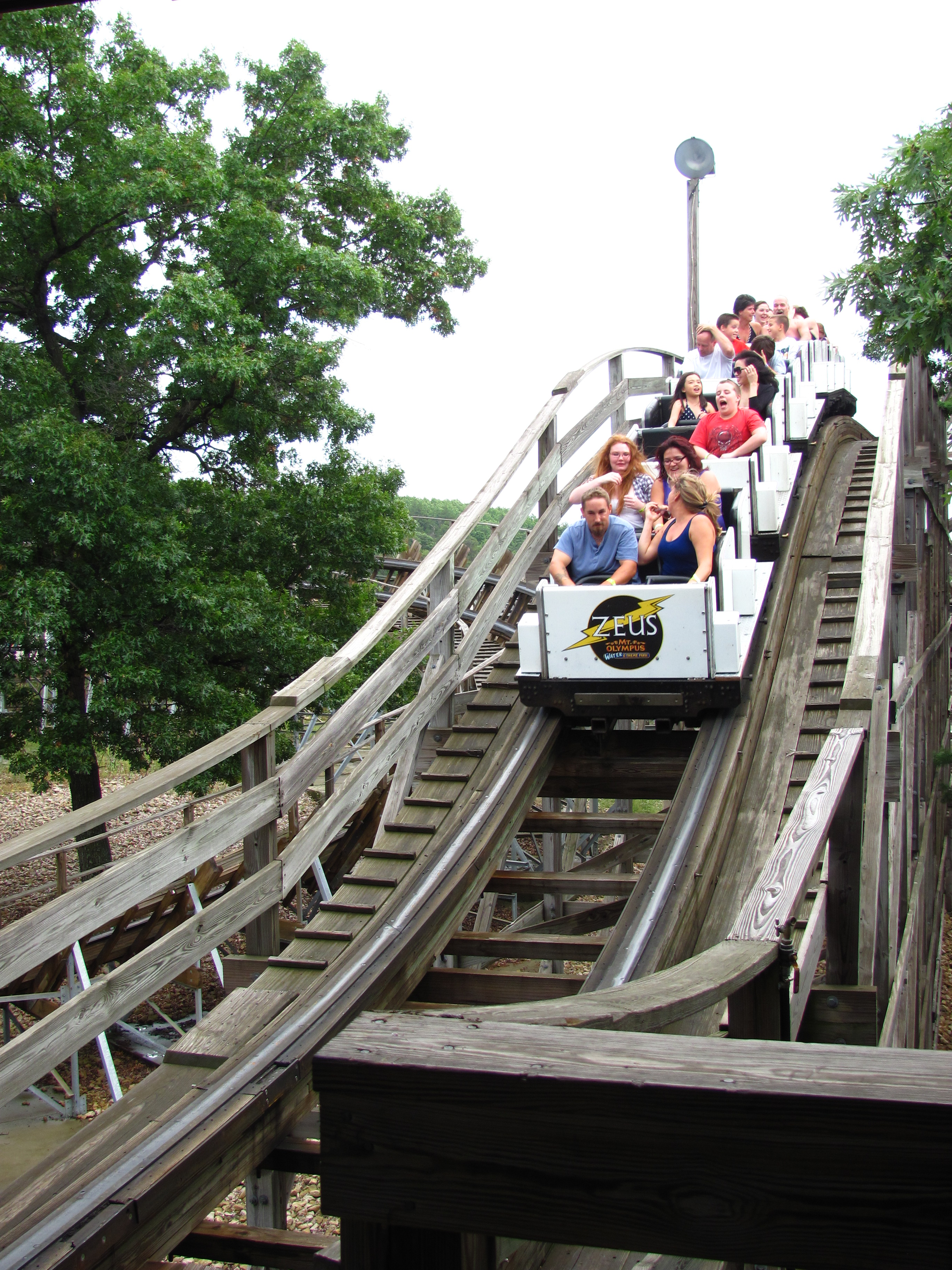 Mt. Olympus Theme Park 093